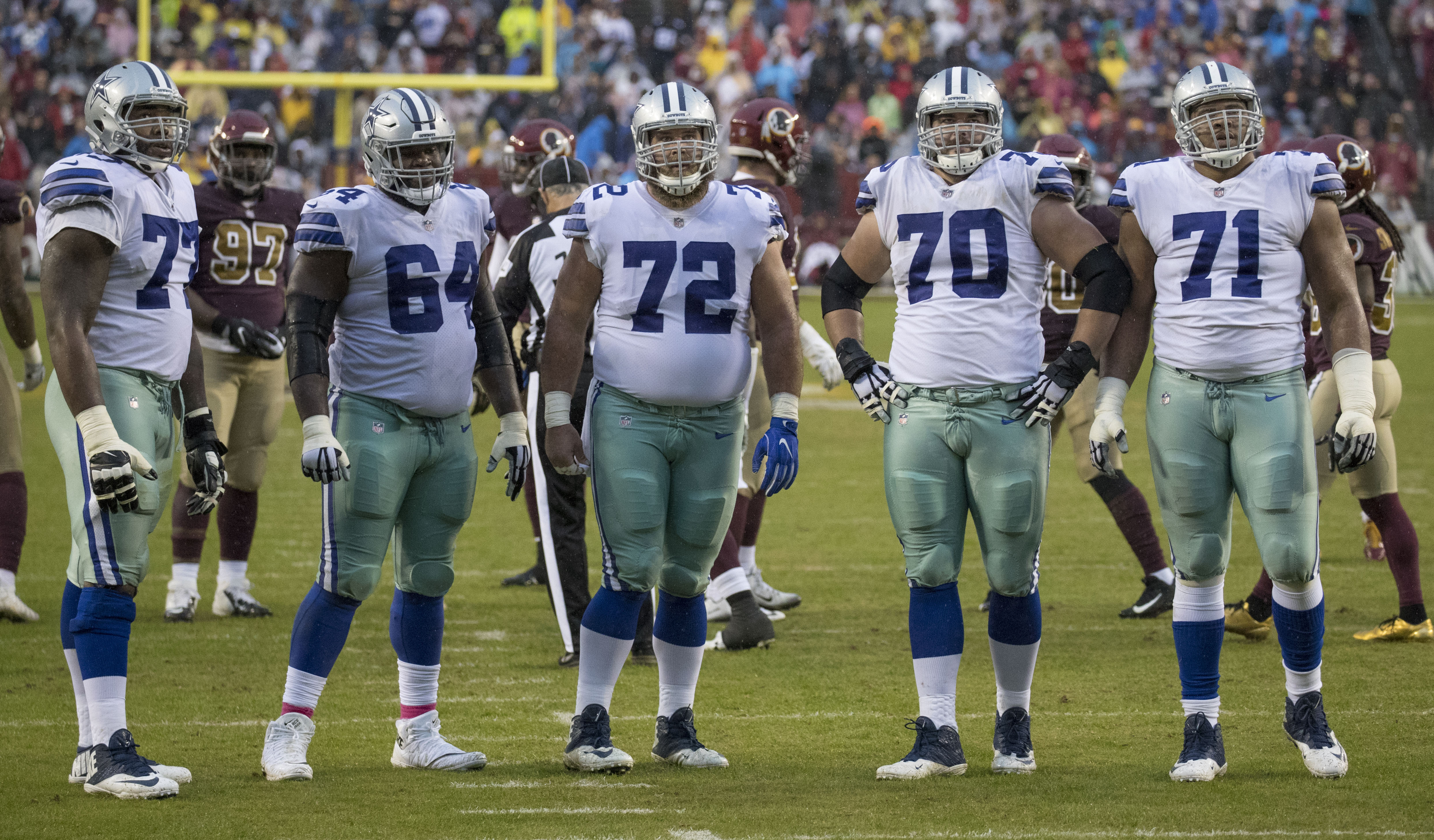 Cowboys at Redskins 10/29/17